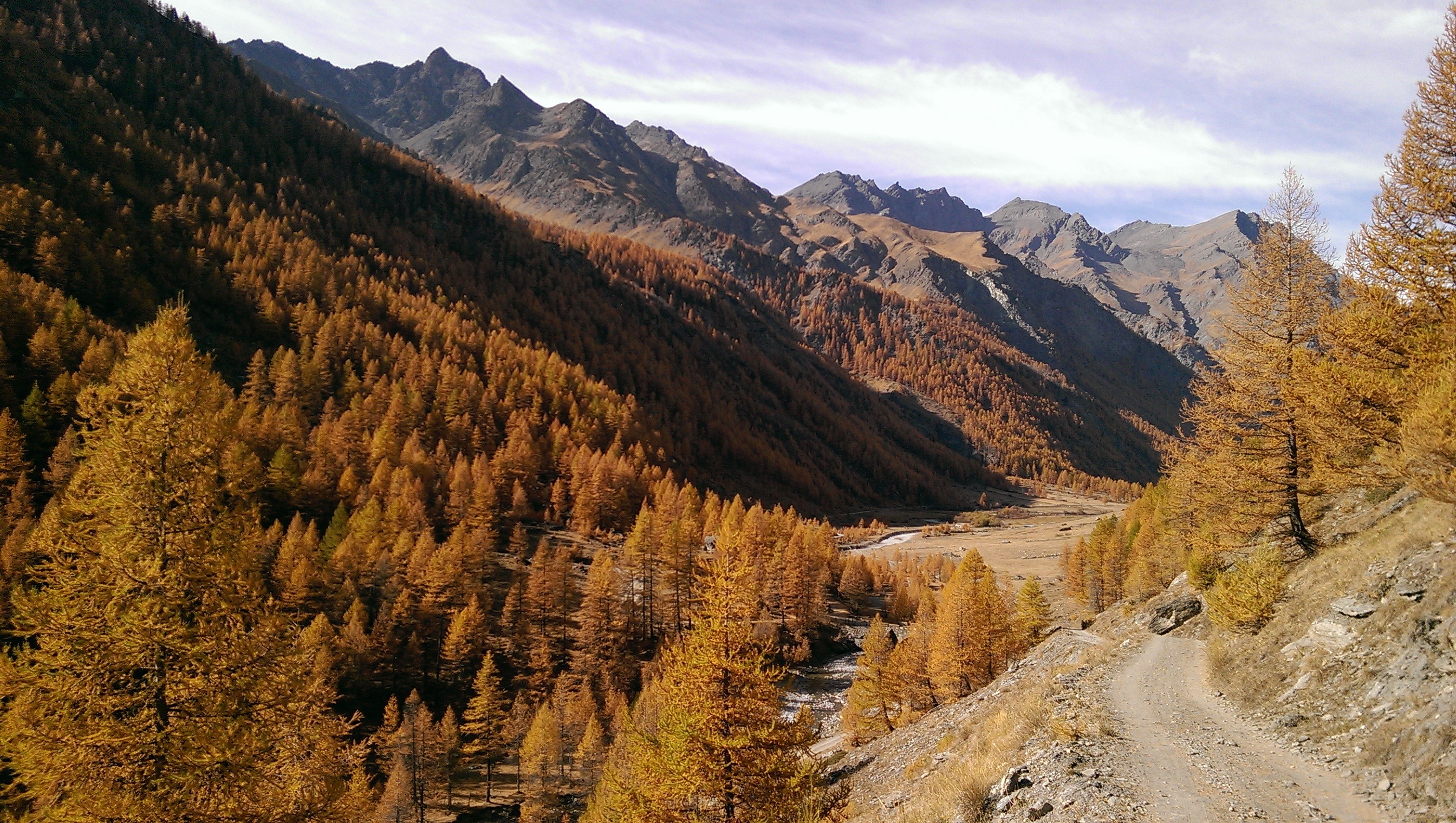 Argentera Valley in autumnal colours